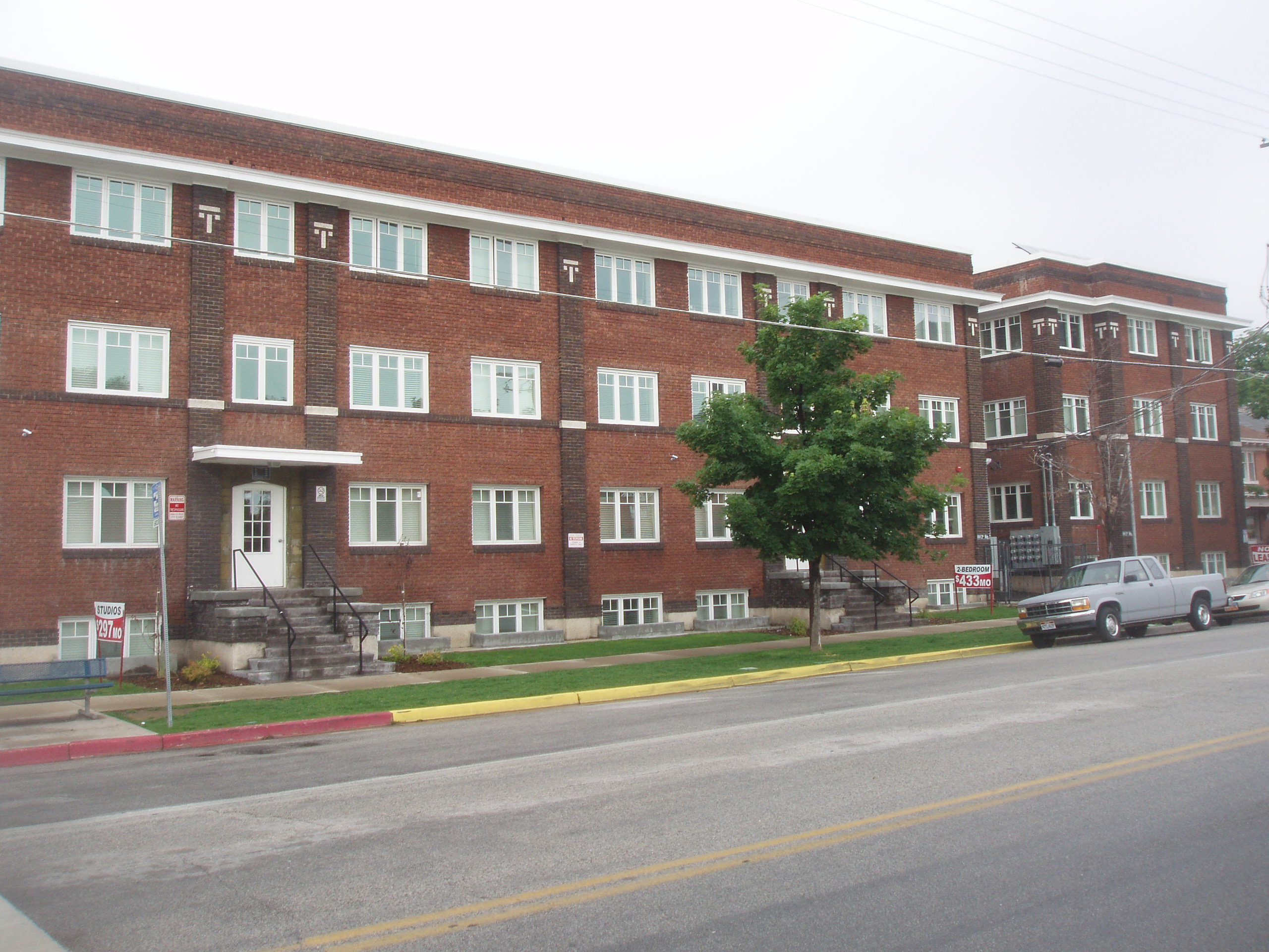 The McGregor Apartments, a historic building in Ogden, Utah, United States.